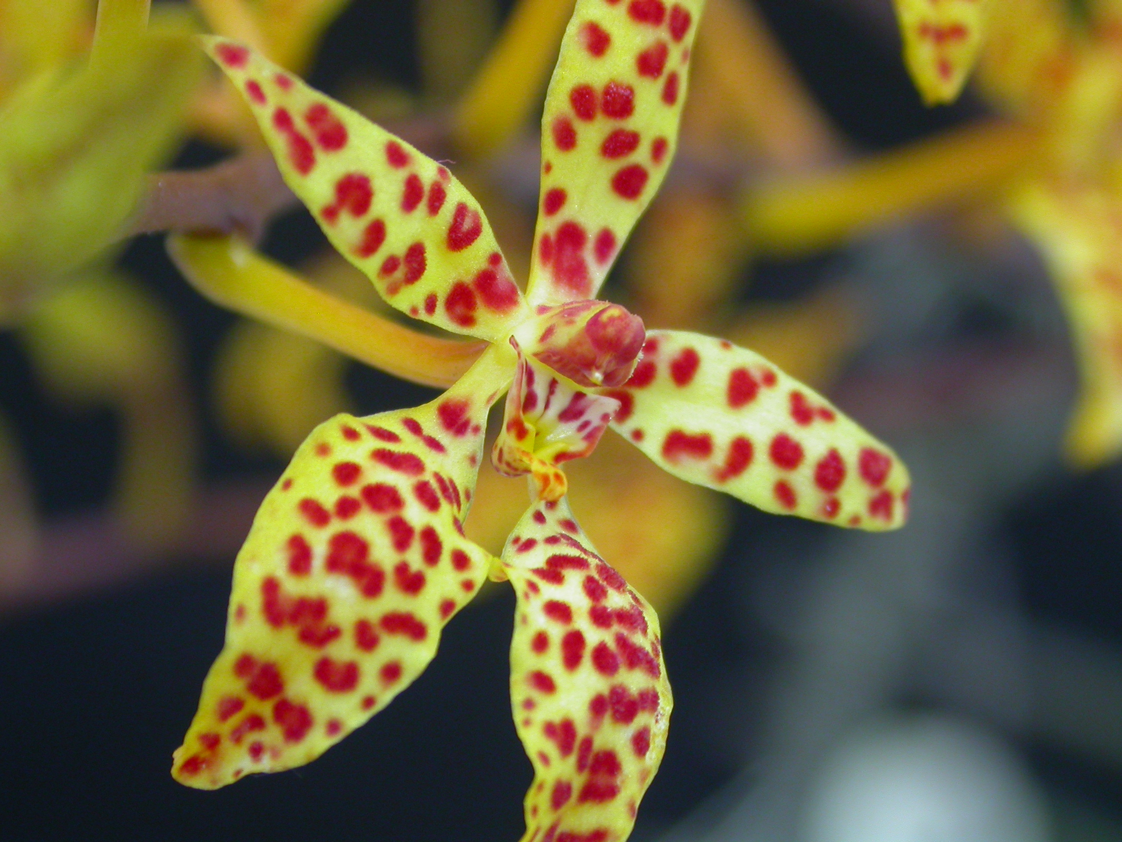 Renanthera monachica